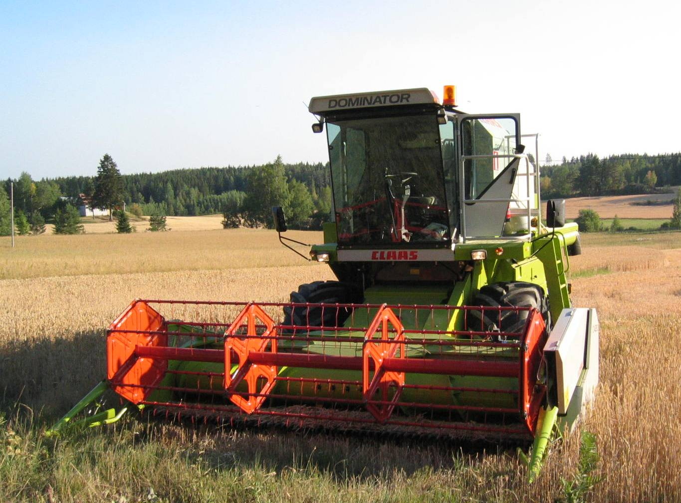 Claas Dominator combine harvester